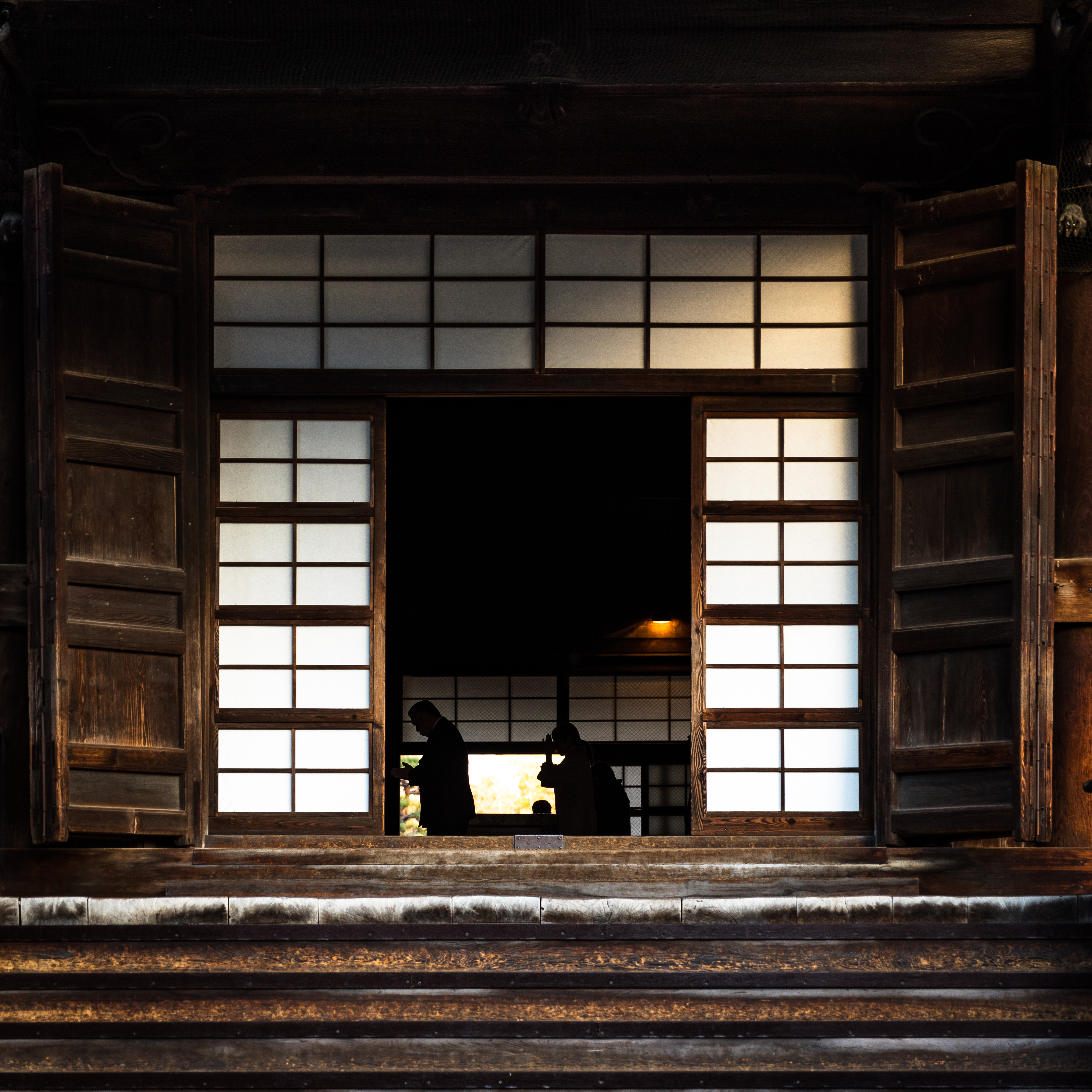 People praying at Zenkō-ji (善光寺) in Nagano, Japan, as seen through one of the side doors leading to the temple’s main hall